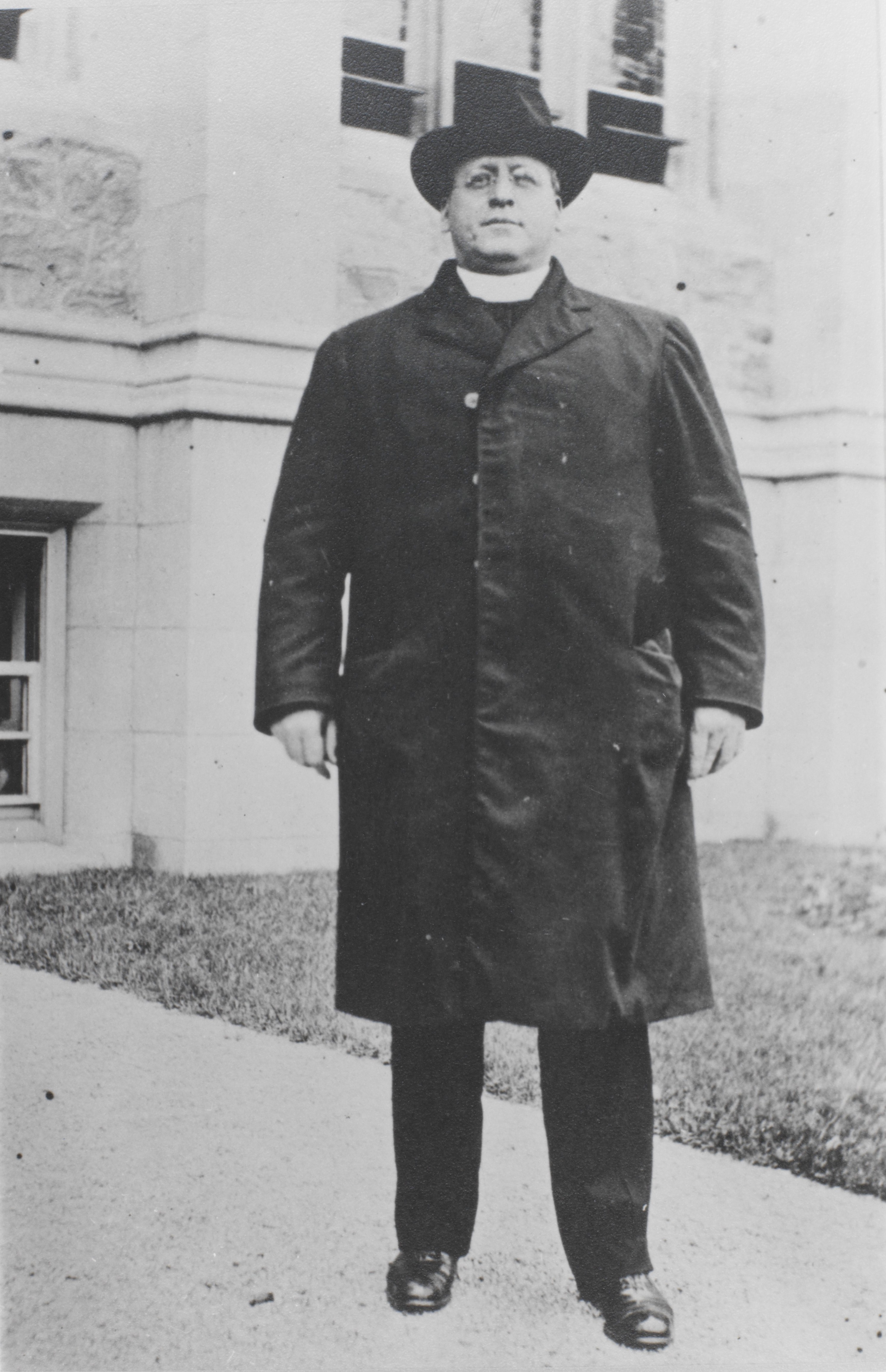 Photograph of the Rev. Charles W. Lyons, S.J. as President of Boston College